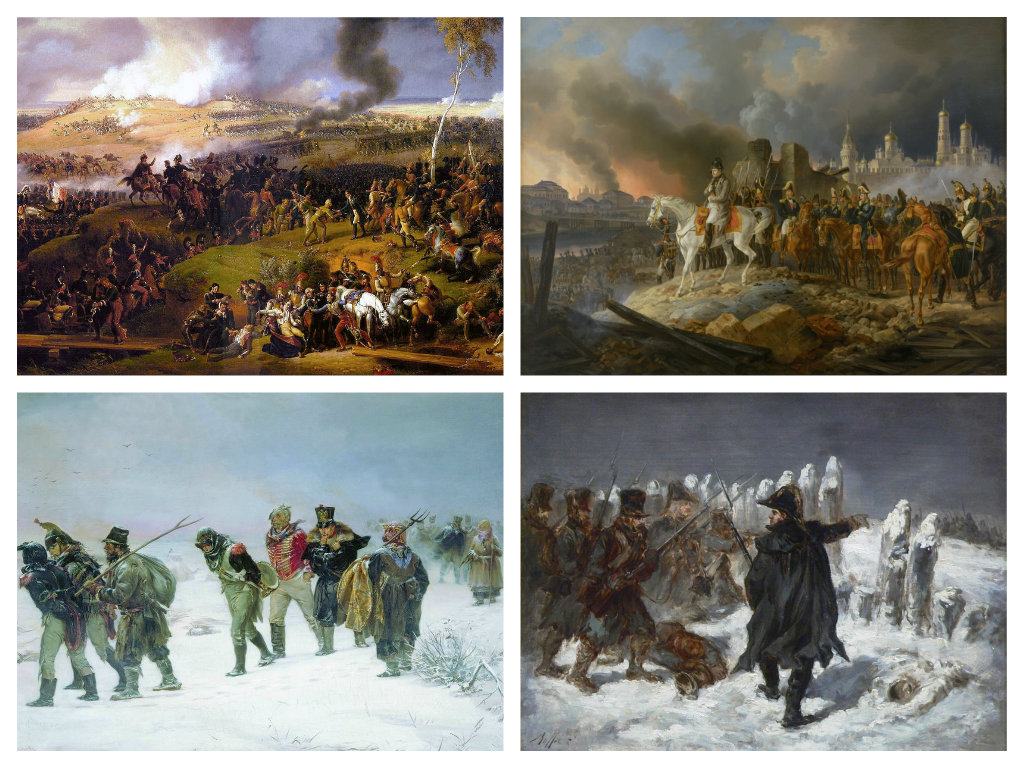 French invasion of Russia, Clockwise from top left: Battle of Borodino Fire of Moscow Marshal Ney at the battle of Kaunas French stragglers